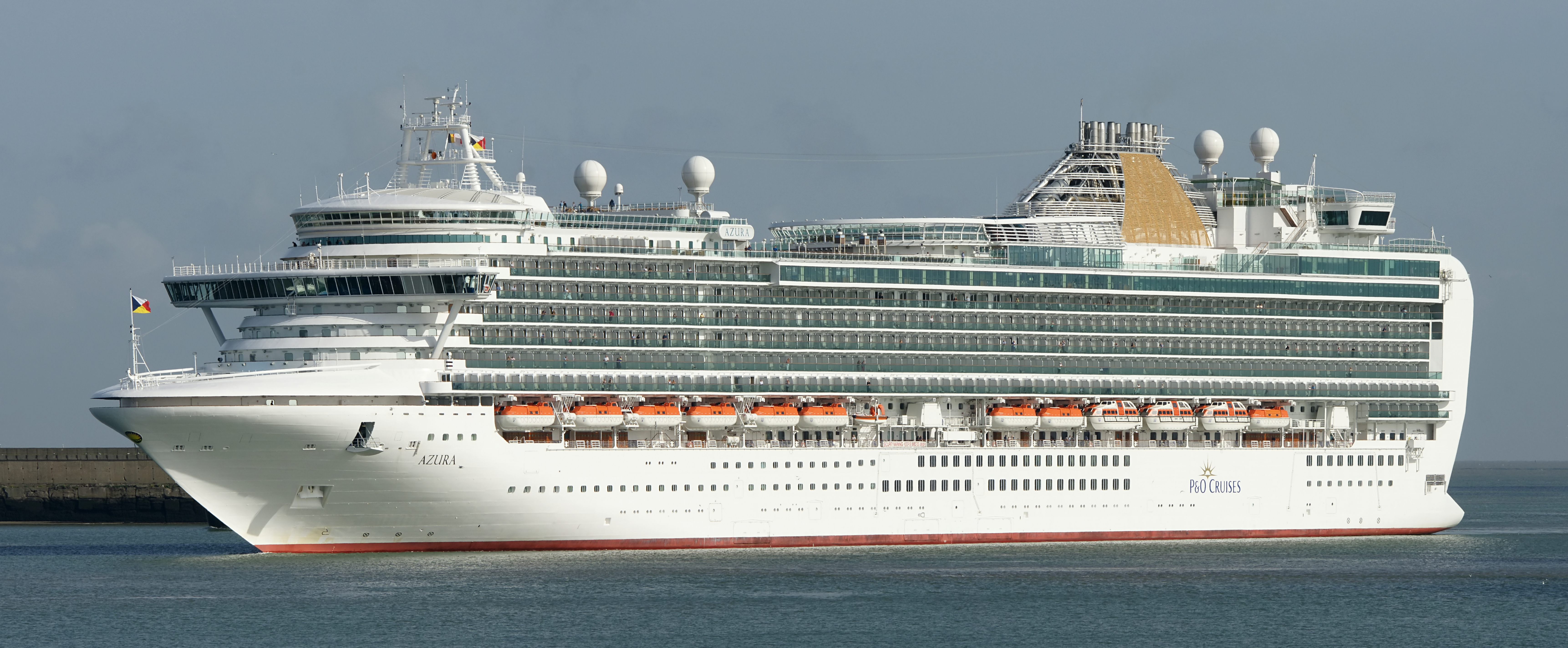 The MS Azura entering the port of Zeebrugge, Belgium.